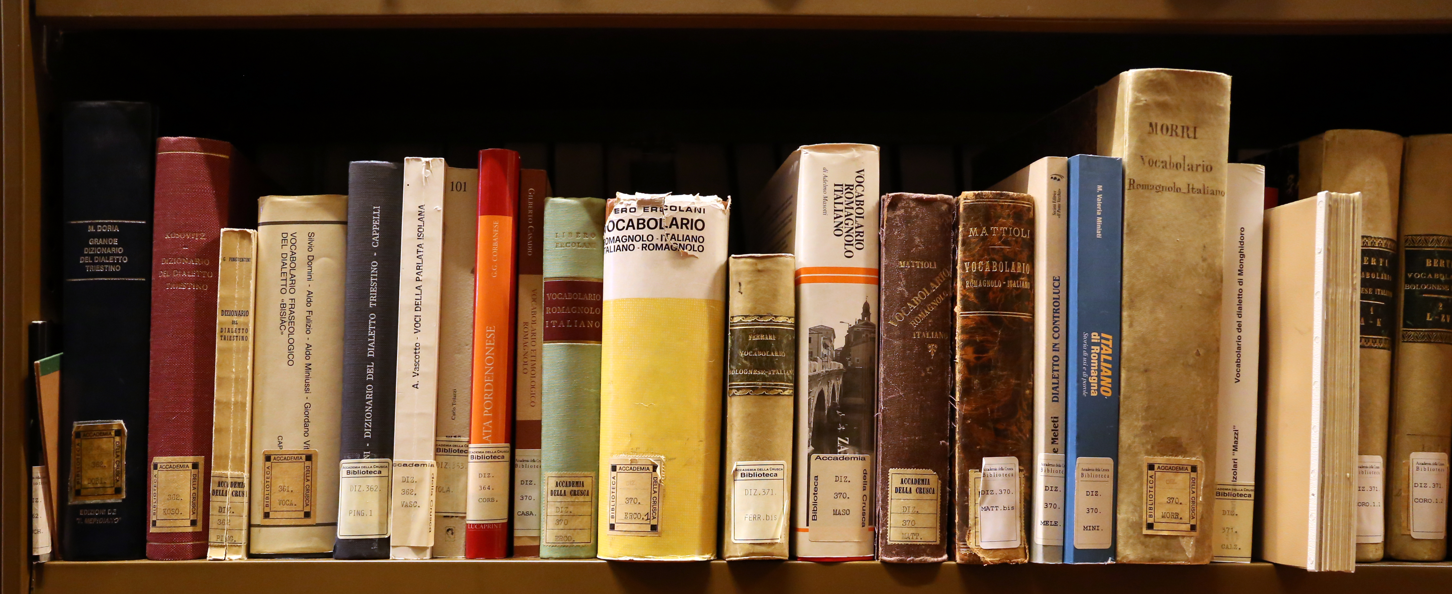 Accademia della Crusca Library